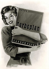 KORES girl with KORES carbon paper.